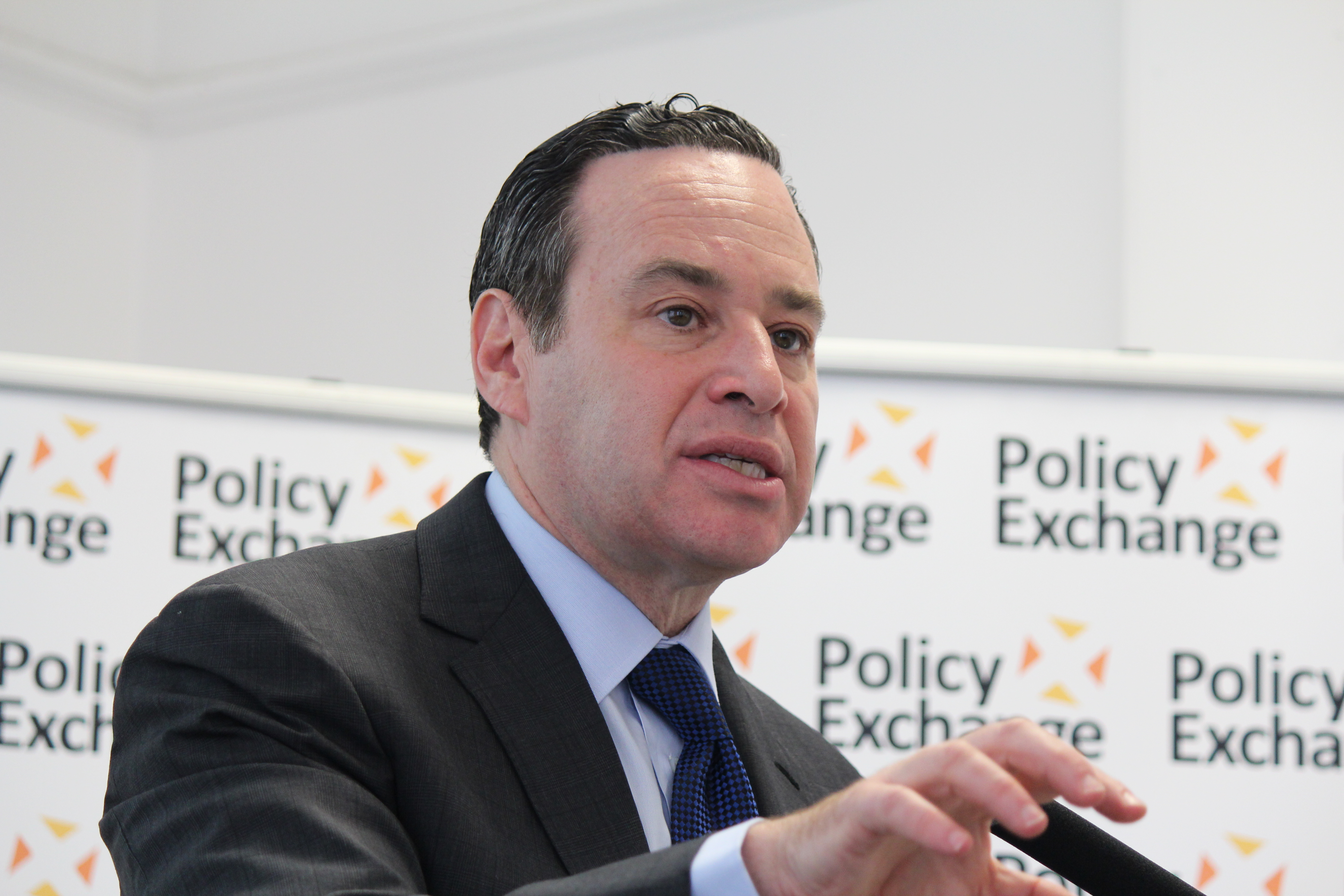 David Frum, Senior Editor, The Atlantic, and author, Why Romney Lost speaking at Policy Exchange